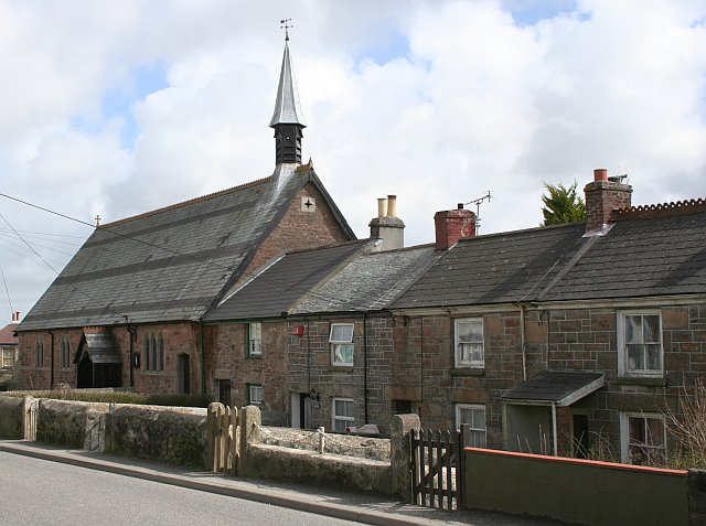 Houses and Church, Carharrack